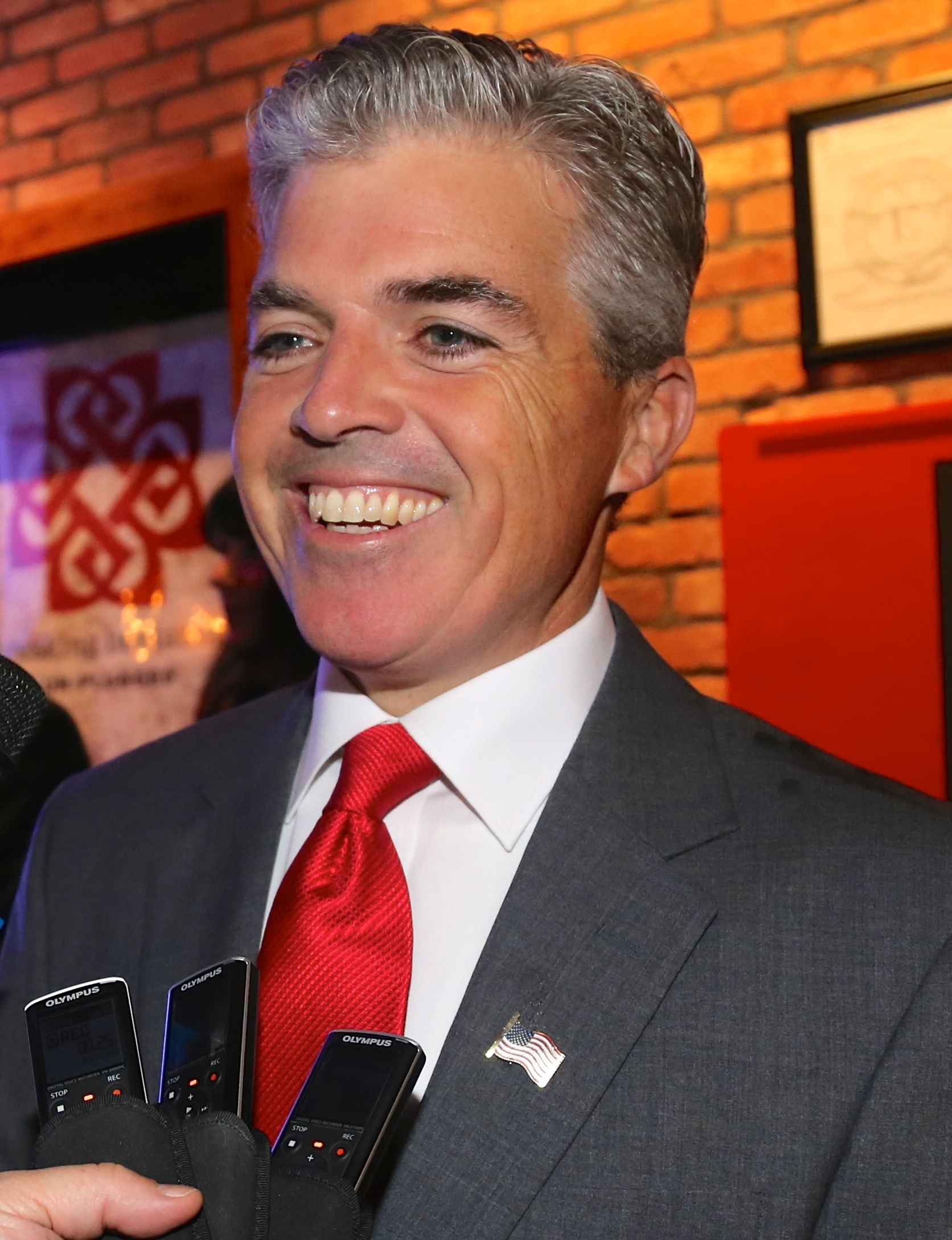 Suffolk County Executive Steve Bellone at the Long Island Music Hall of Fame 2014 induction gala.